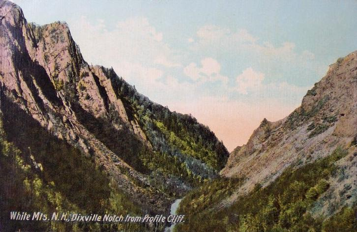 Dixville Notch from Profile Cliff, White Mountains, Dixville, New Hampshire